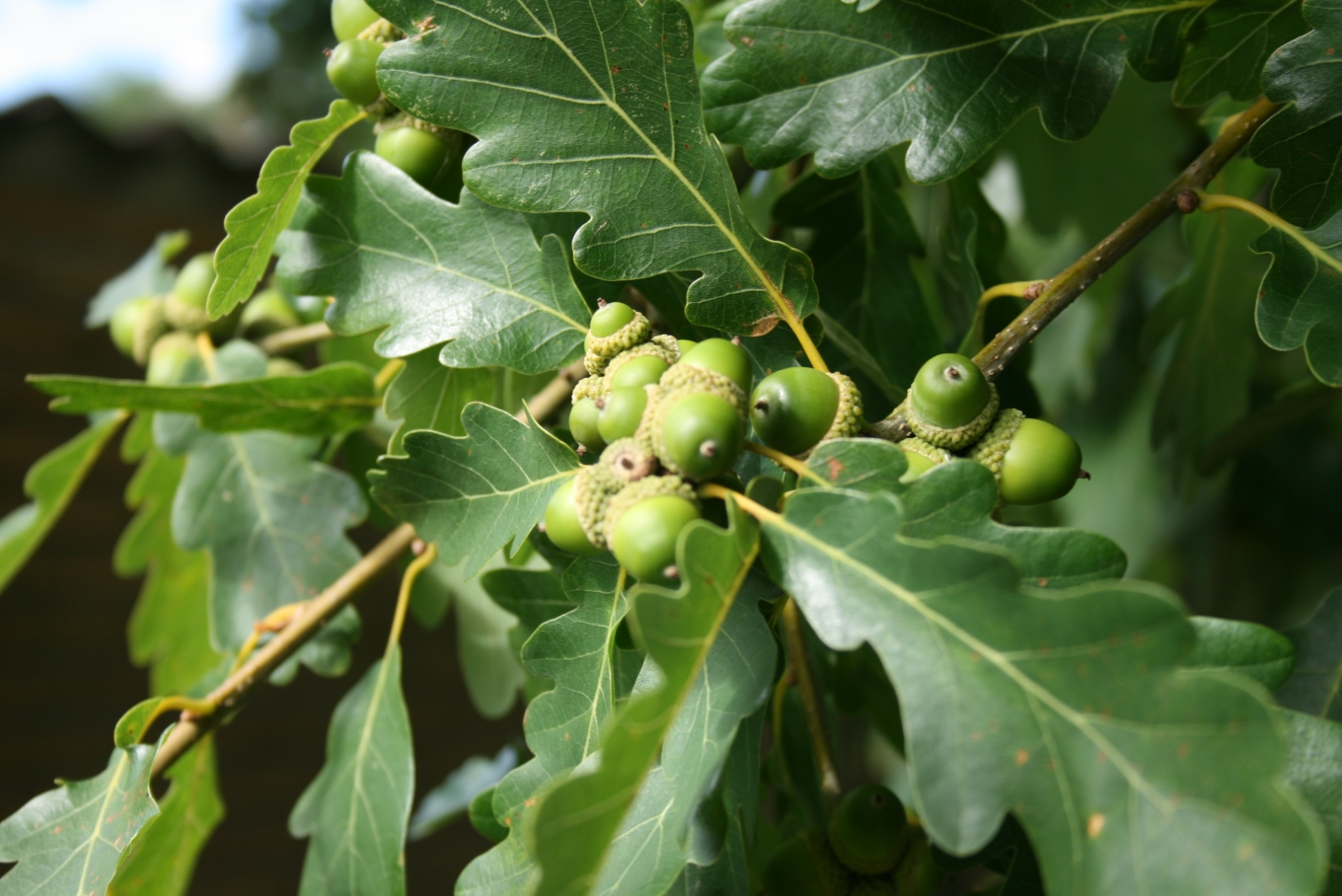 Quercus petraea: Acorns.